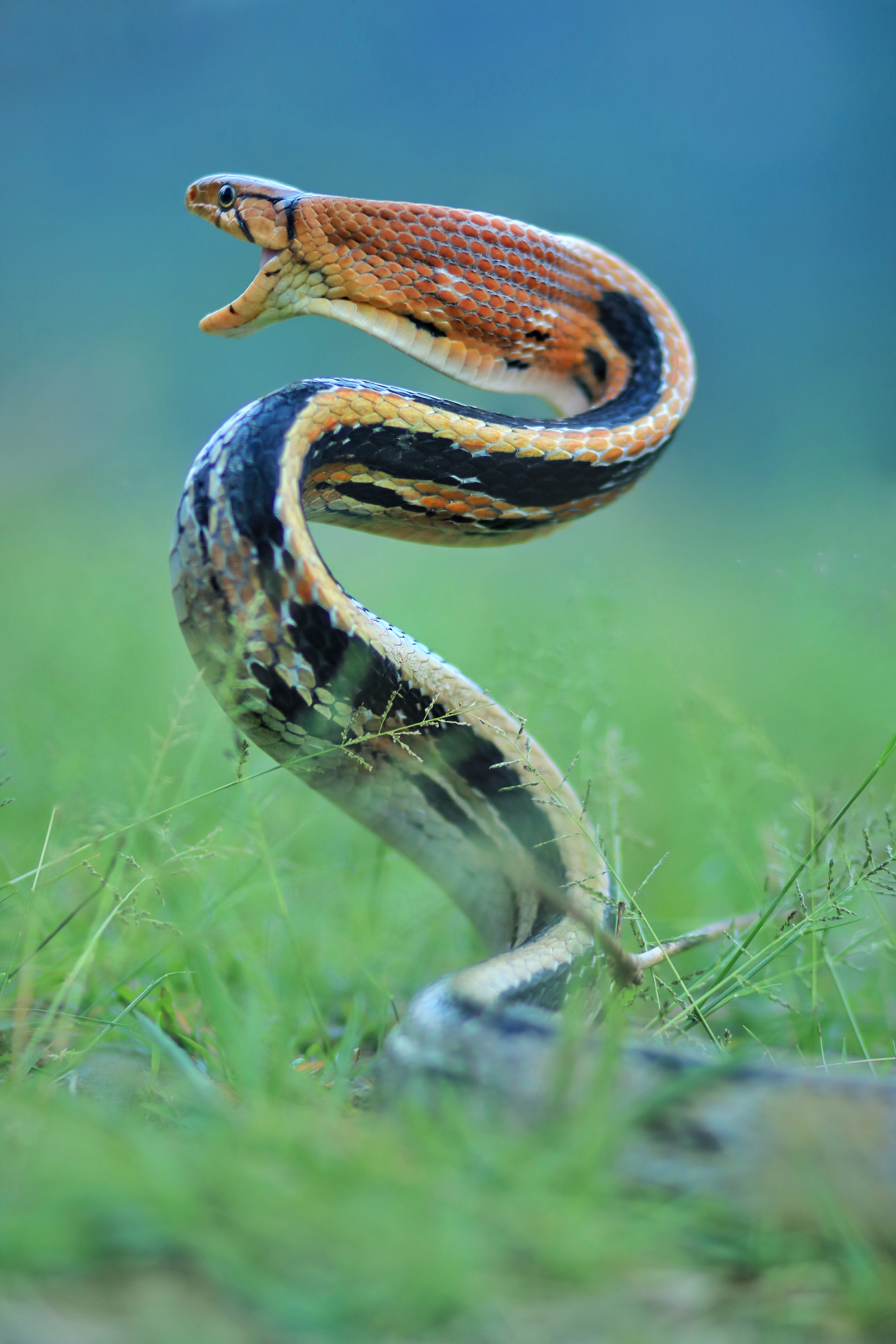 Beauty and the Beast Copper Headed Trinket Snake